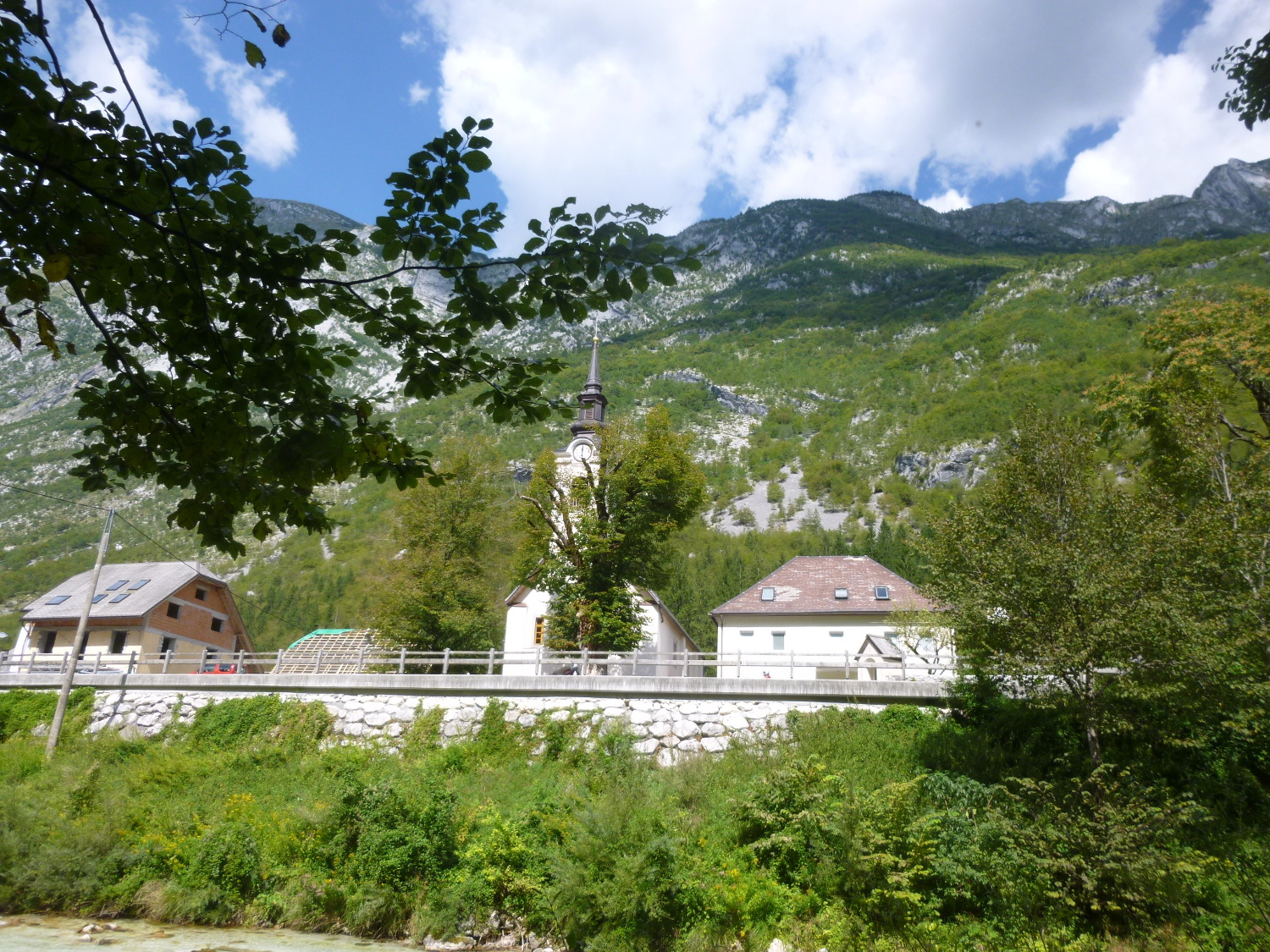 35 Soca